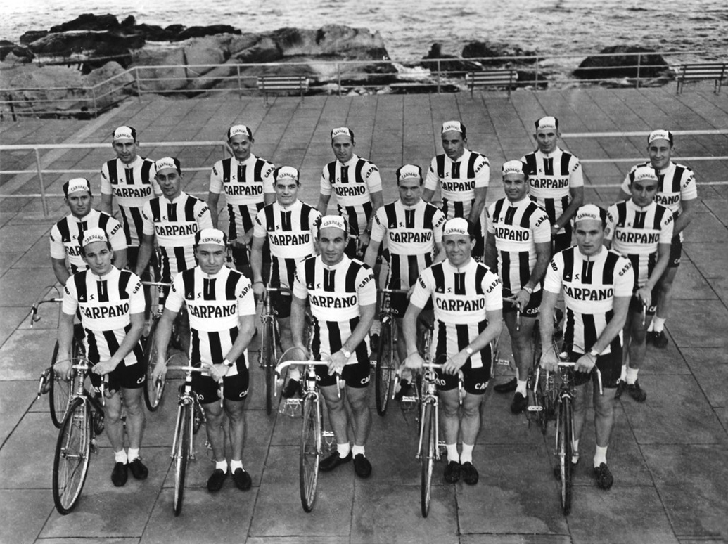 Carpano cycling team 1959 postcard